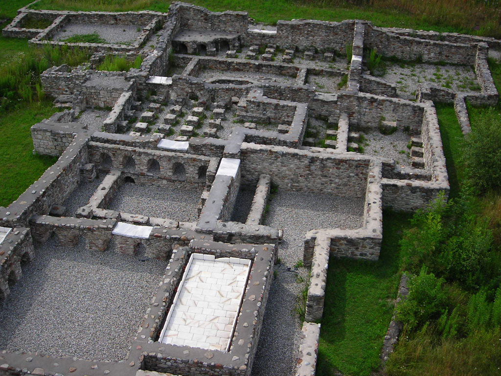 ruin of a roman thermae in the former city Aguntum